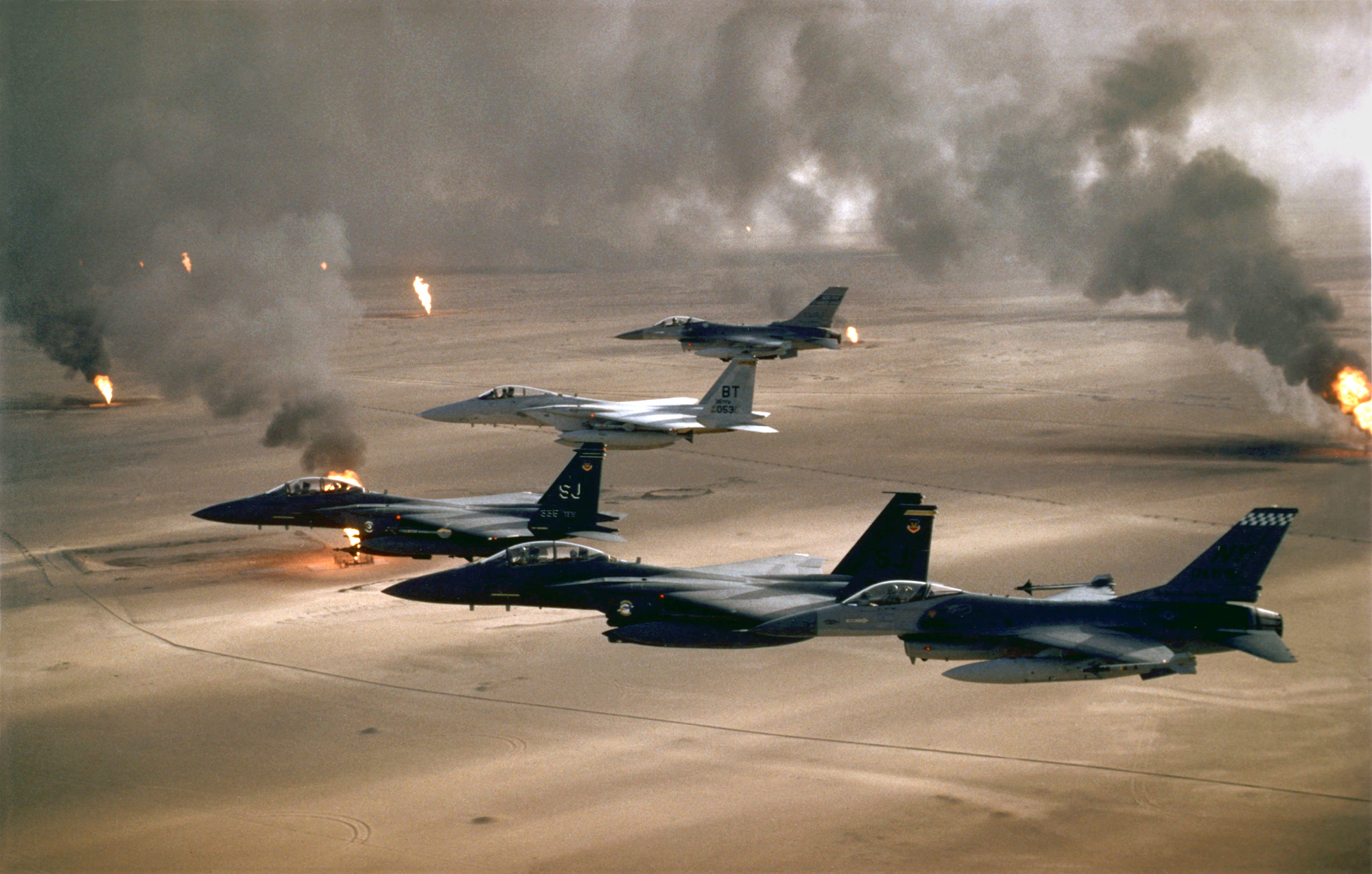 USAF photo of F-16A, F-15C, F-15E war planes flying over burning oil wells during Desert Storm, 1991